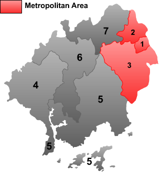 Map of Jiangmen in Guangdong province.